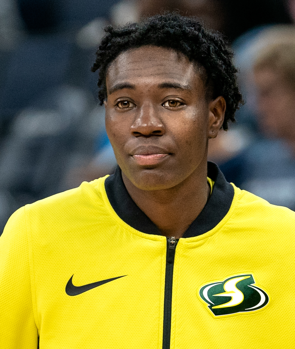 Seattle Storm players Natasha Howard (foreground) and Alysha Clark warming up